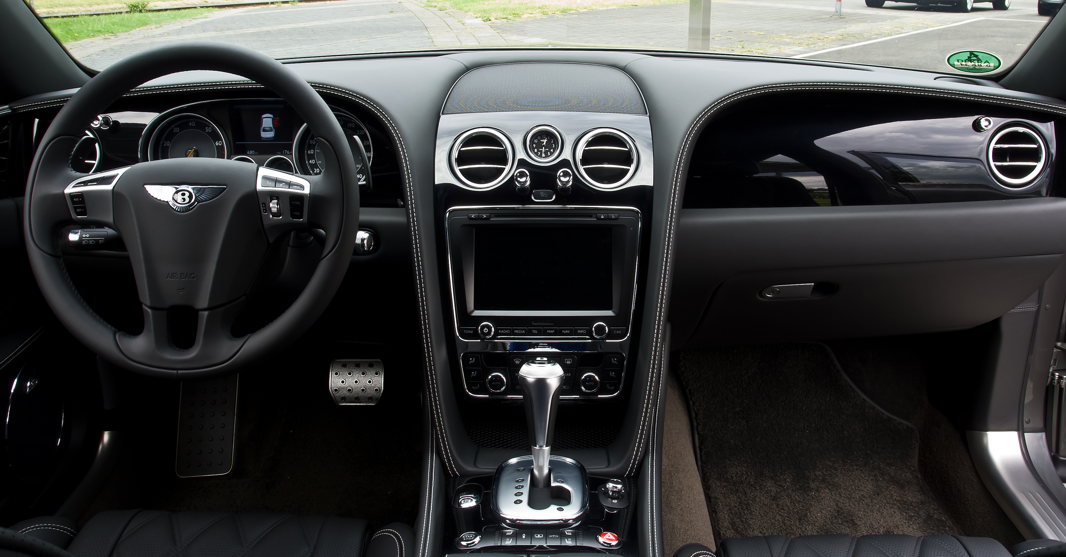 Bentley Flying Spur